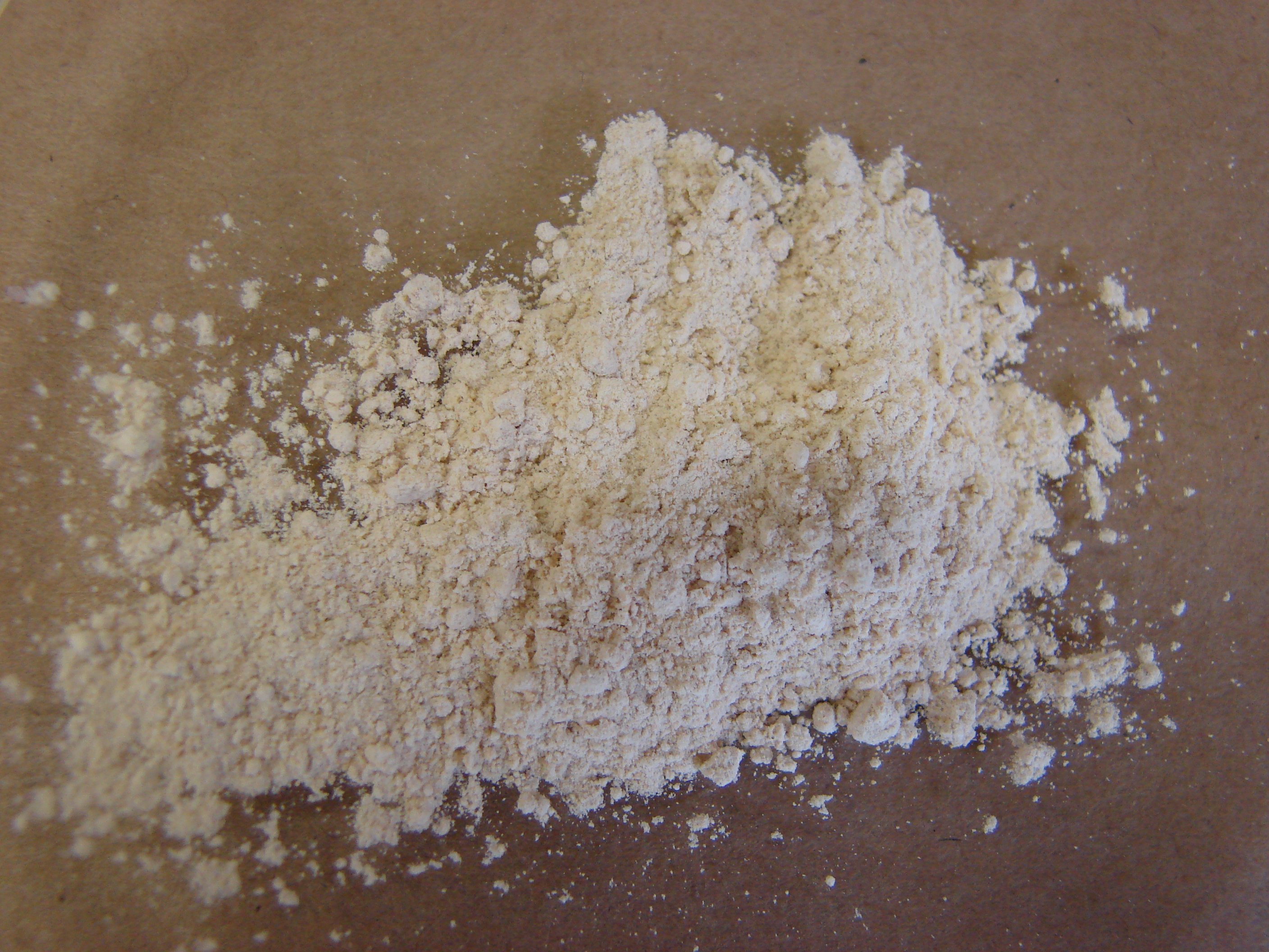 Macae radix, Lepidium meyenii